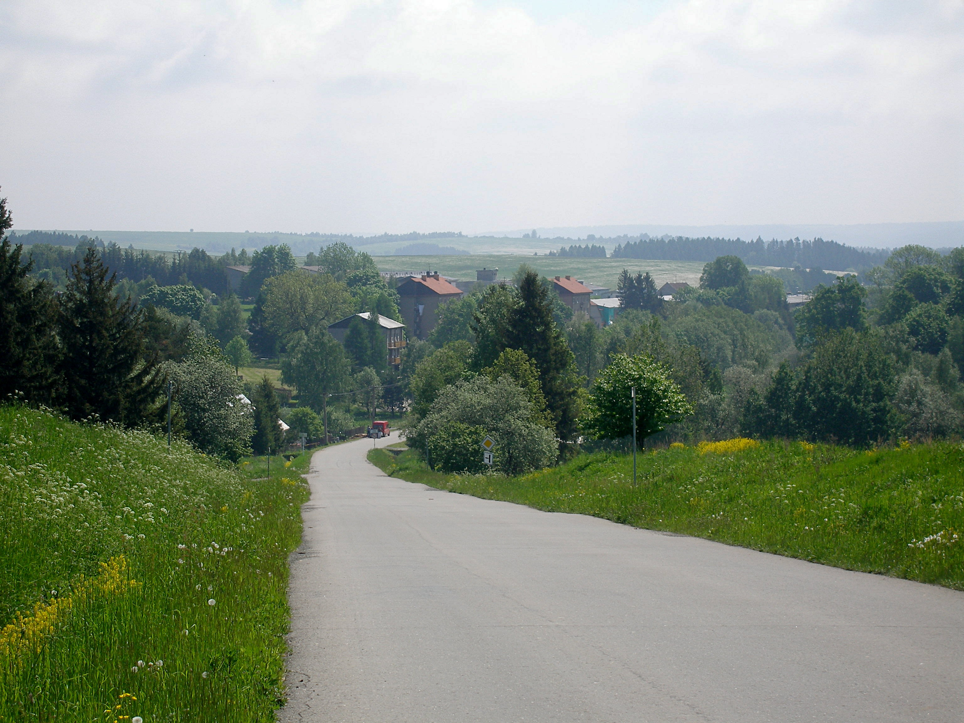 Village Heroltovice (Herlsdorf) in military area Libavá in Moravia; view from the West